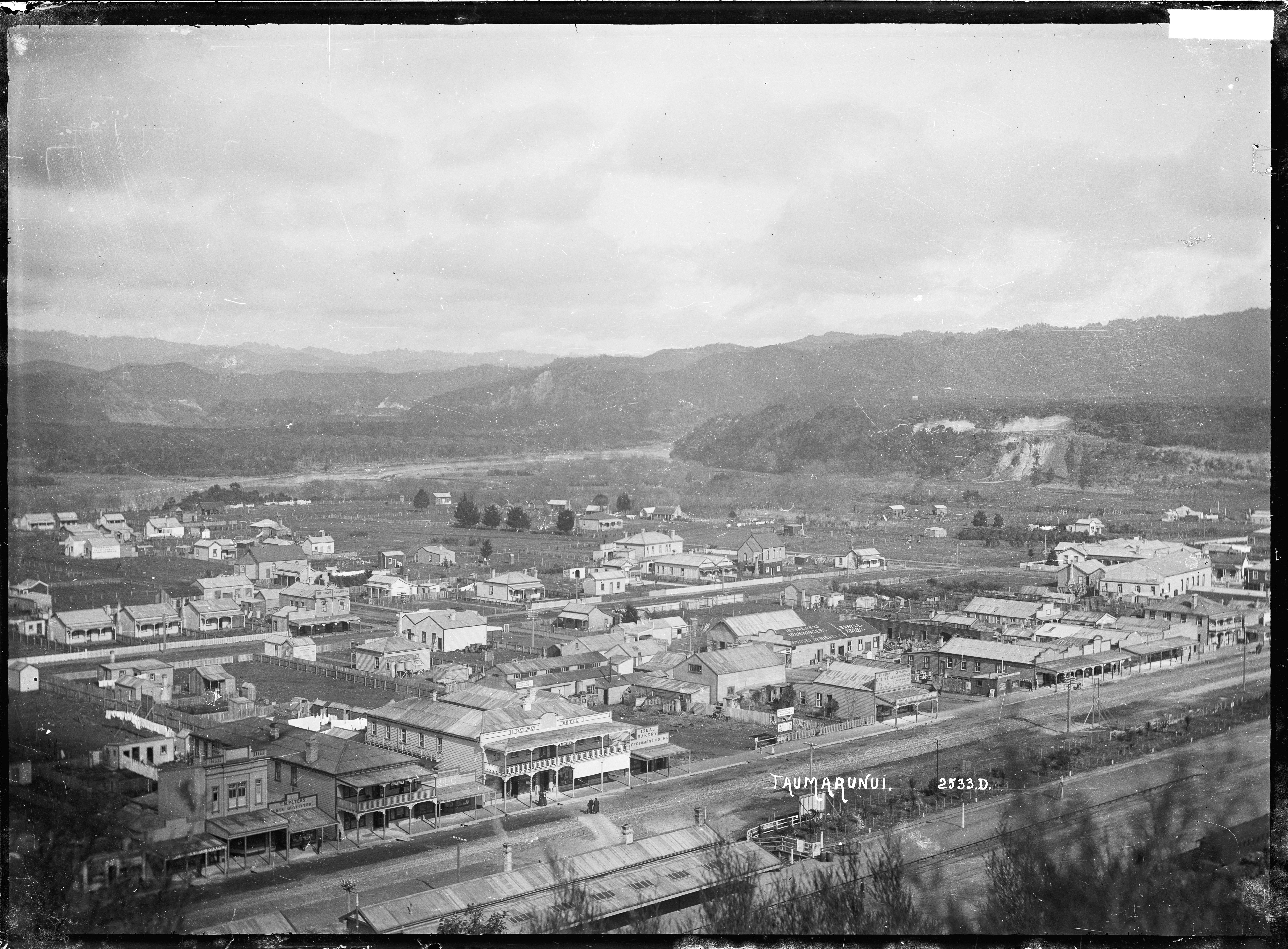 General view of Taumarunui, showing the main street in the foreground. The Railway Hotel, and the business premises of T M Peters (Theodore Mortimer Peters, men's outfitters), are visible centre foreground. Photograph taken by William Archer Price. Inscriptions: Inscribed - Photographer's title on negative -bottom right: Taumarunui. [No.] 2533.D. Quantity: 1 b&w original negative(s). Physical Description: Dry plate glass negative Peters, Theodore Mortimer, d 1967. View of Taumarunui. Price, William Archer, 1866-1948 :Collection of post card negatives. Ref: 1/2-000685-G. Alexander Turnbull Library, Wellington, New Zealand.